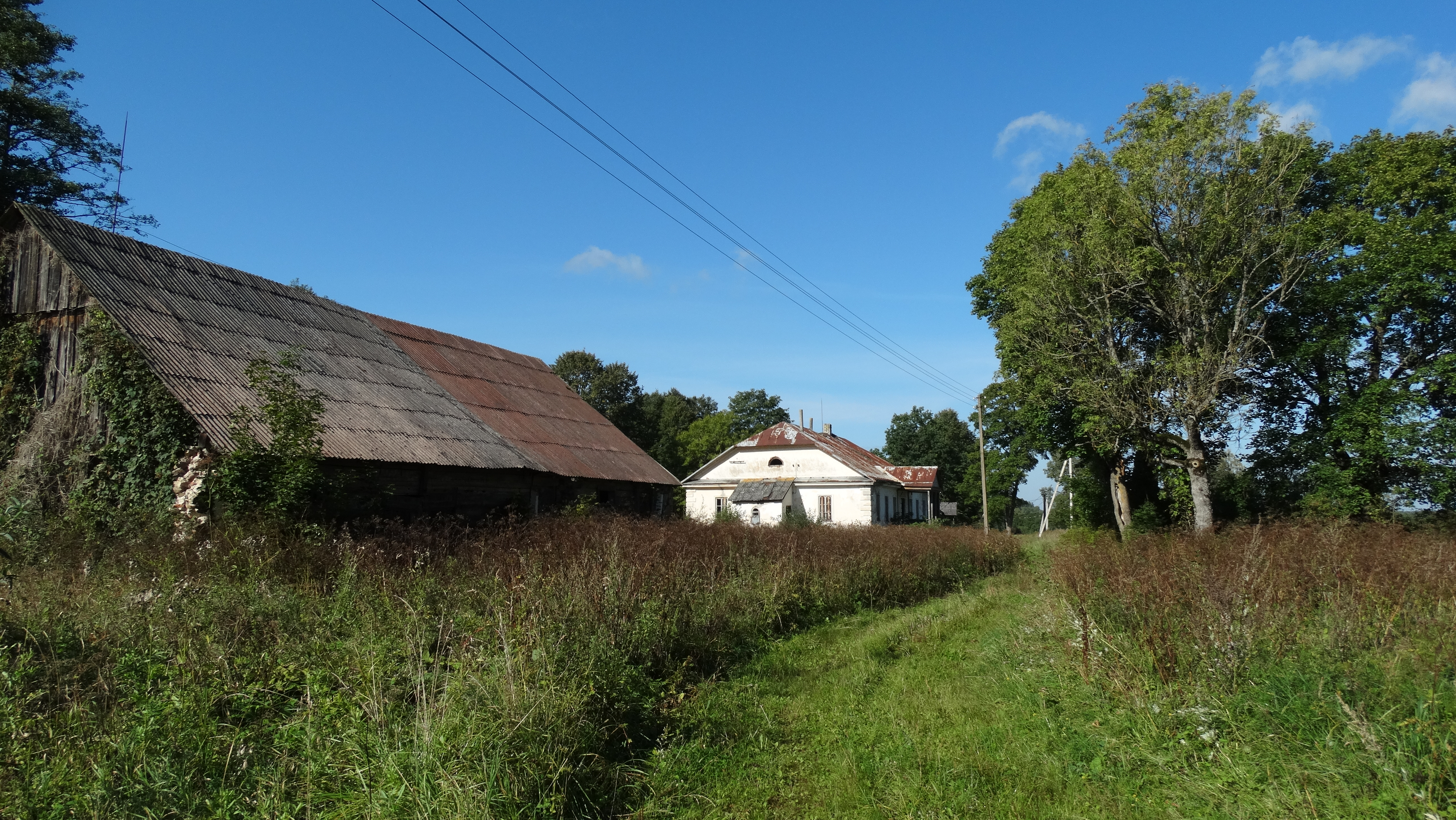 Former manor, Pavirinčiai, Anykščiai district, Lithuania